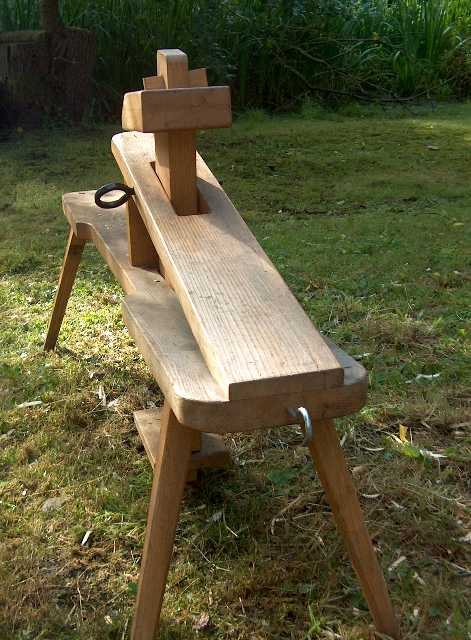 shaving horse - used for wood working - also sloyd teaching